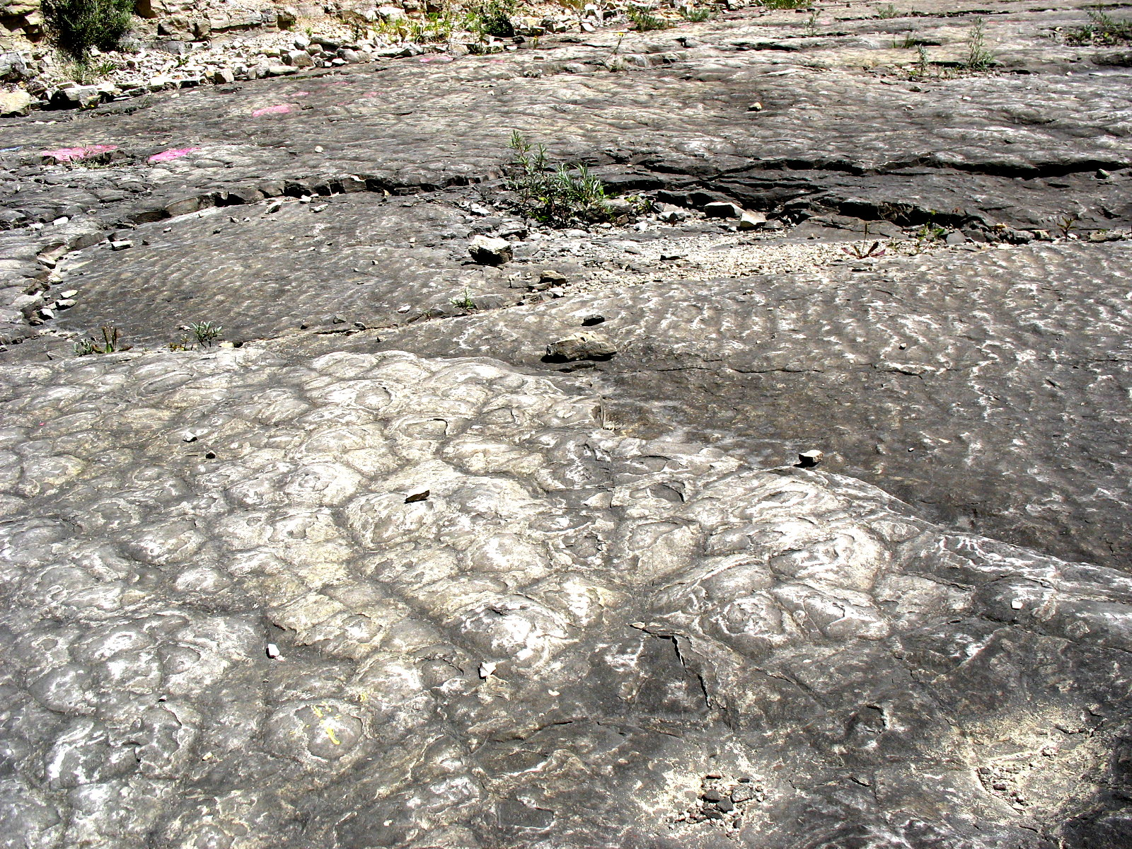 Stromatolithic bed over ripples layer. Jurassic of Loulle, Jura, Franche-Comté, France.